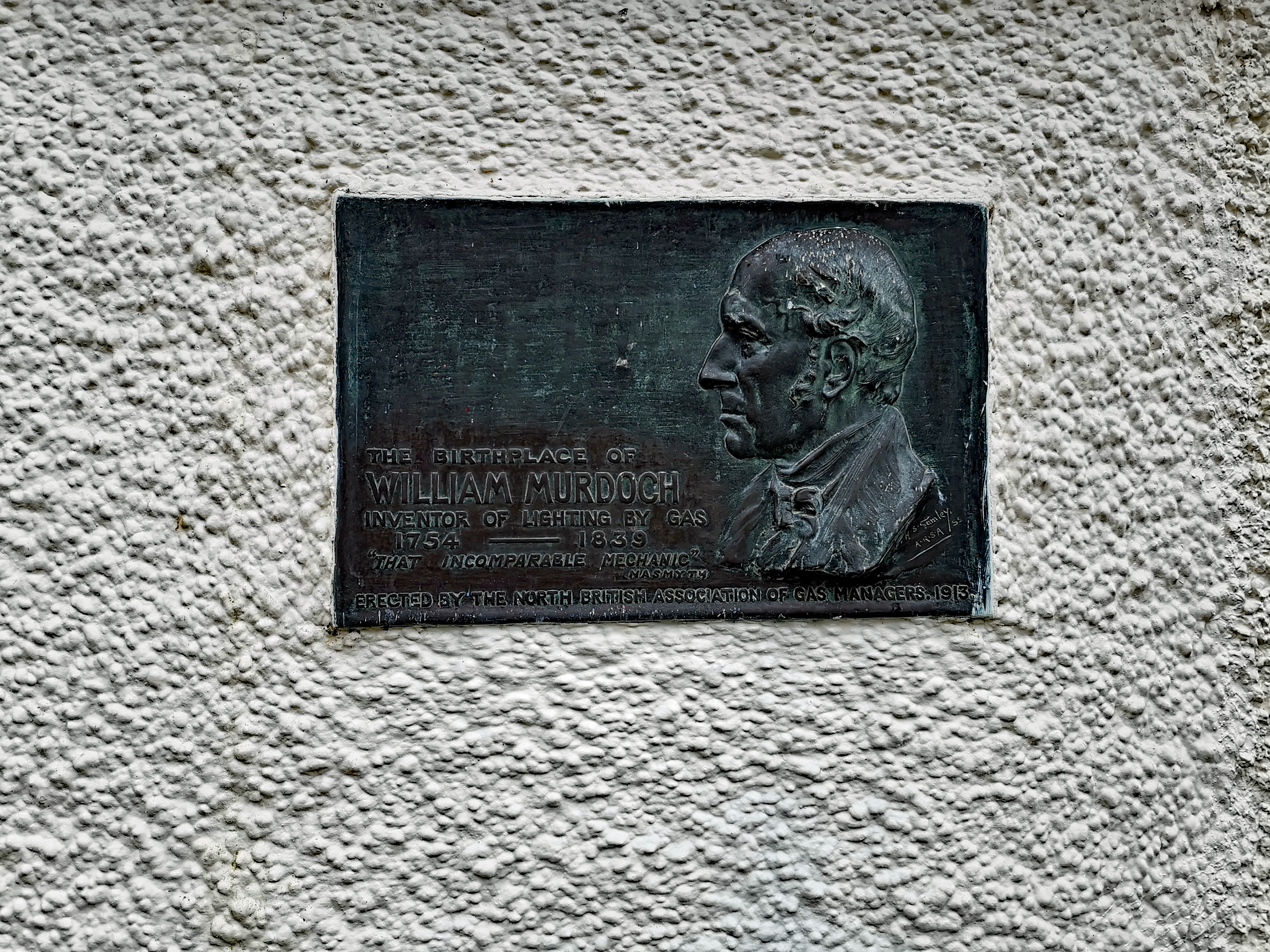 Bello Mill Cottage, birthplace of William Murdoch (Lugar, Ayrshire, Scotland, UK)